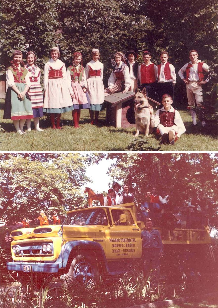 Birgit Ridderstedt, her son Stefan seated with their dog "King" and Swedish Days Parade dance group Place: 1112 S. Batavia Avenue, Batavia, Illinois